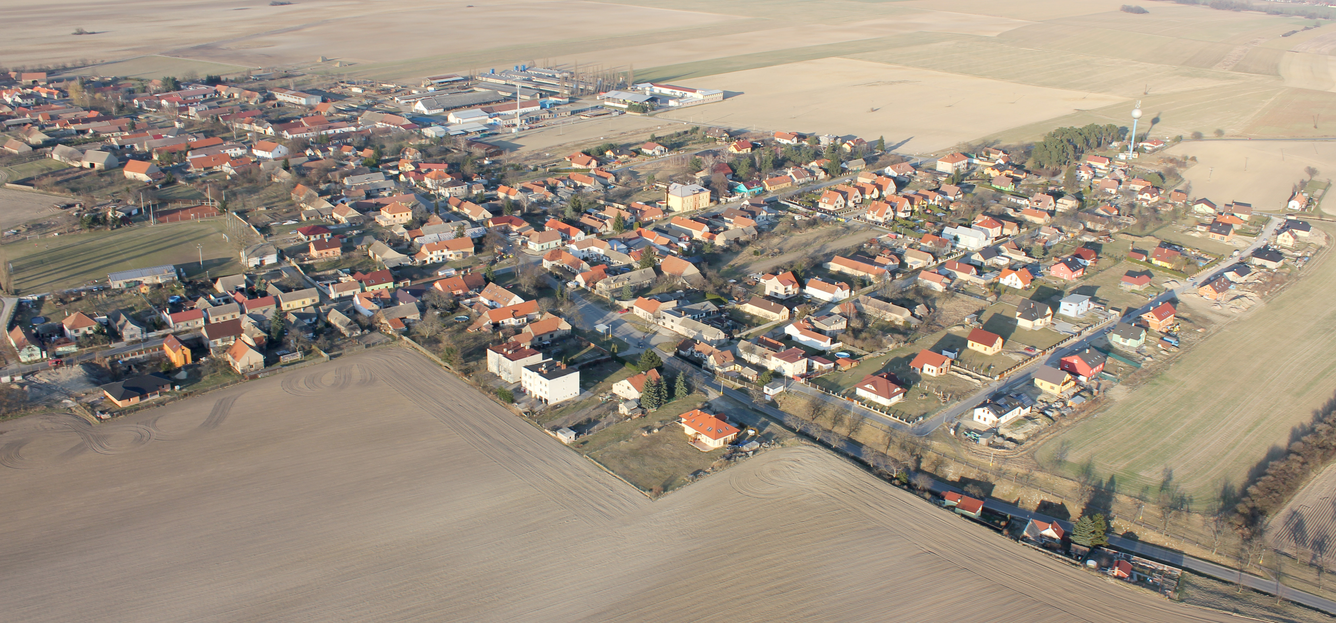 aerial photo